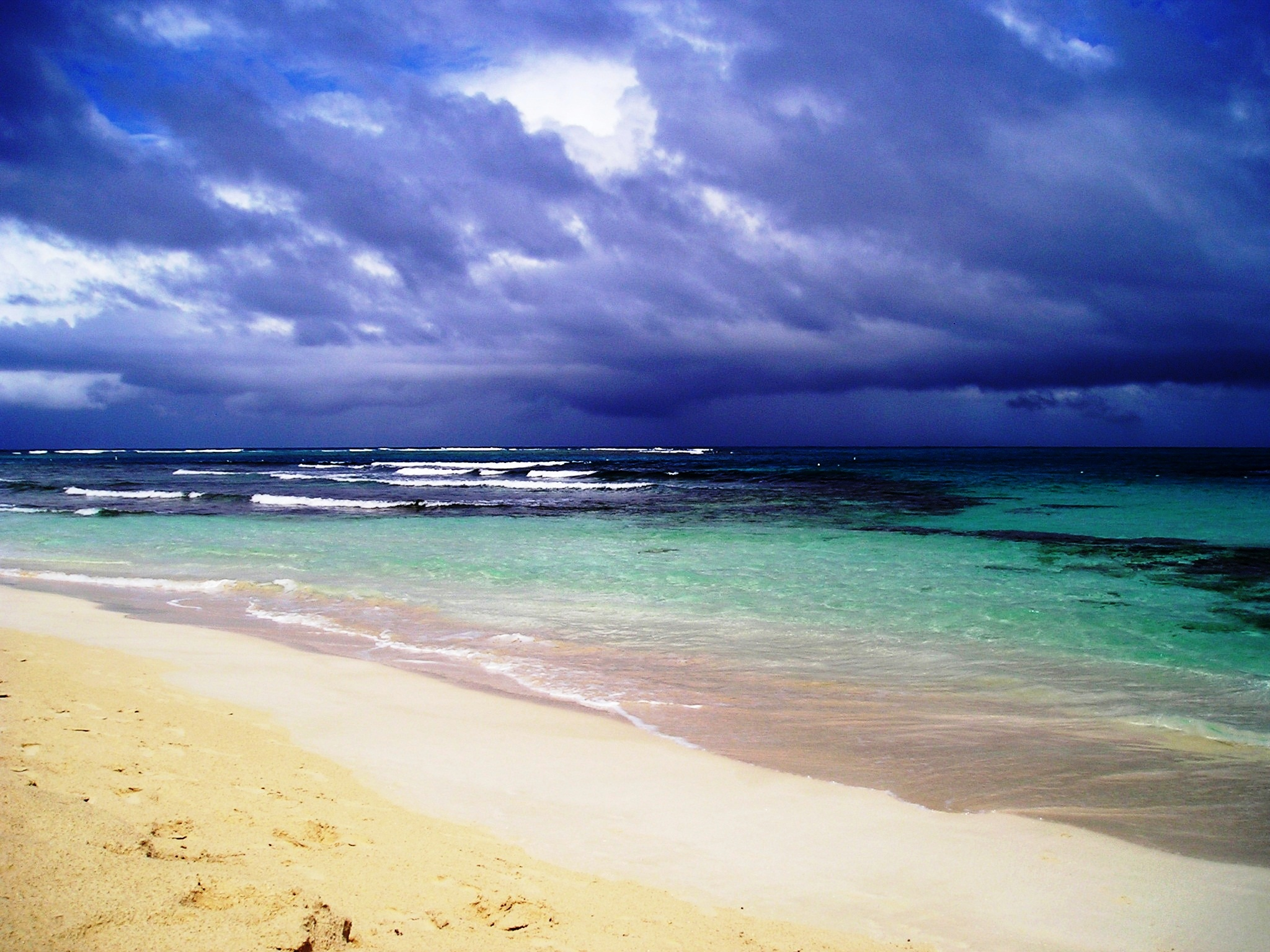 Flamenco Beach on a stormy morning, island-municipality of Culebra (Puerto Rico)